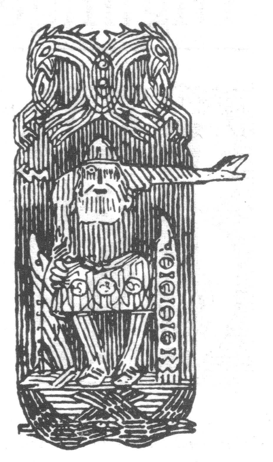 Gerhard Munthe: Illustration for Ynglingesaga. Snorre 1899-edition. 2 nn: Odin seidar. nb: Odin øver seid.